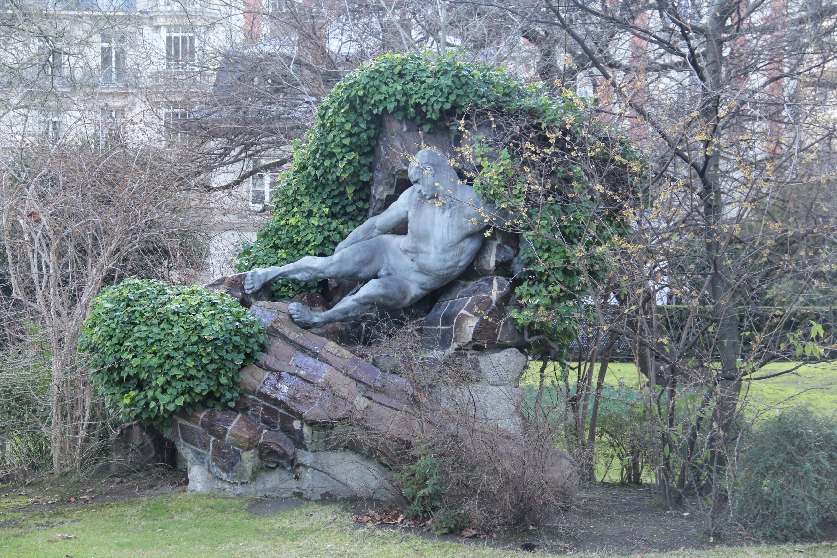 L'Effort by Pierre Roche, Luxembourg Gardens, Paris.